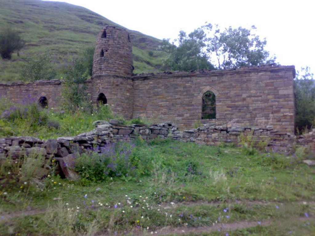 A mosque in Terloy-Mohk.